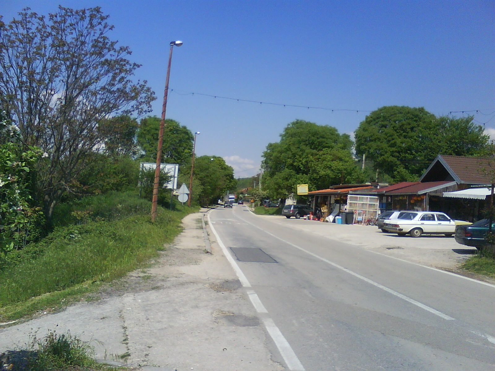 Sovići, municipality Grude